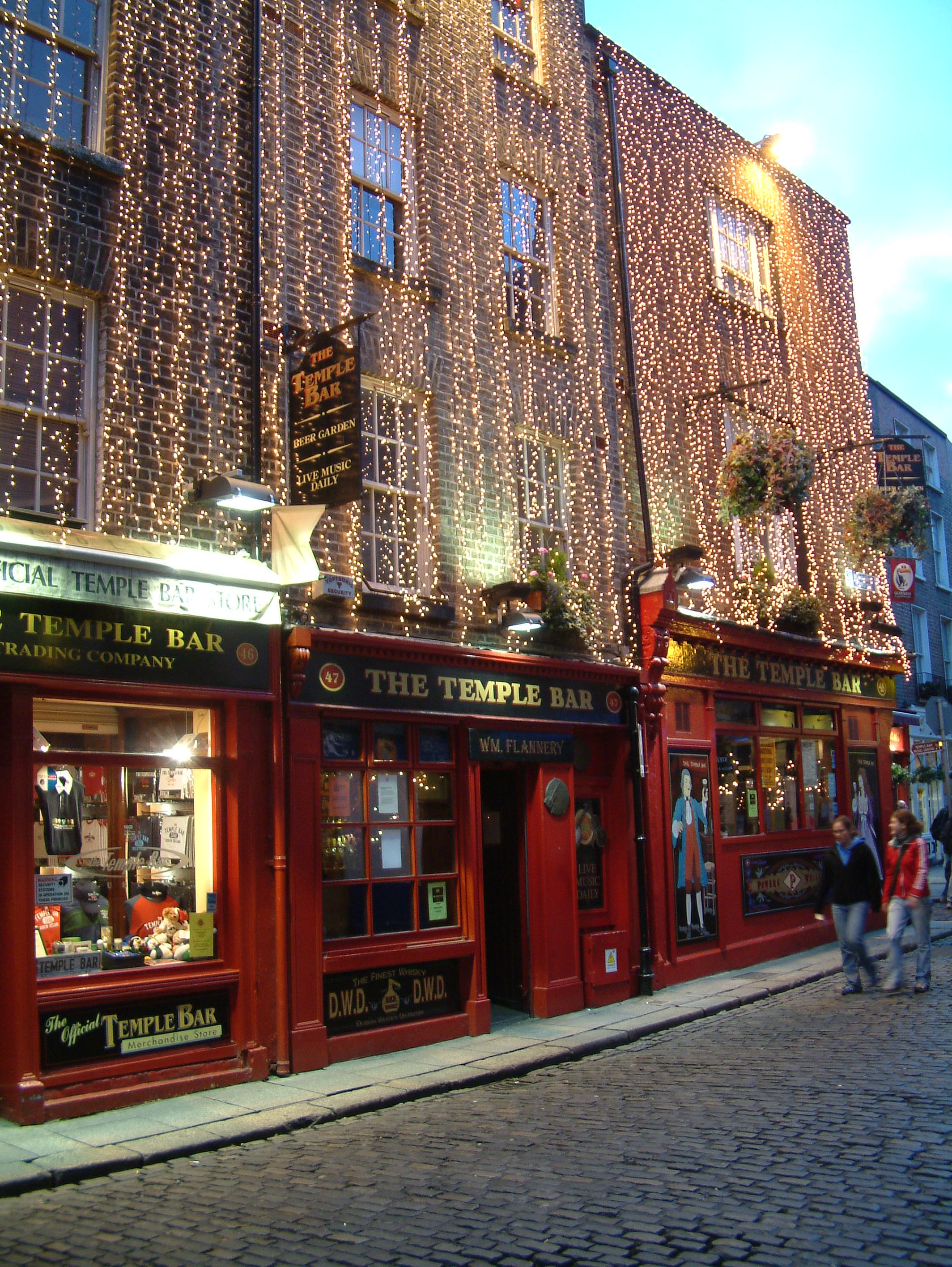 White lights drape The Temple Bar in the Christmas season, December 2004.The Temple Bar at Christmas